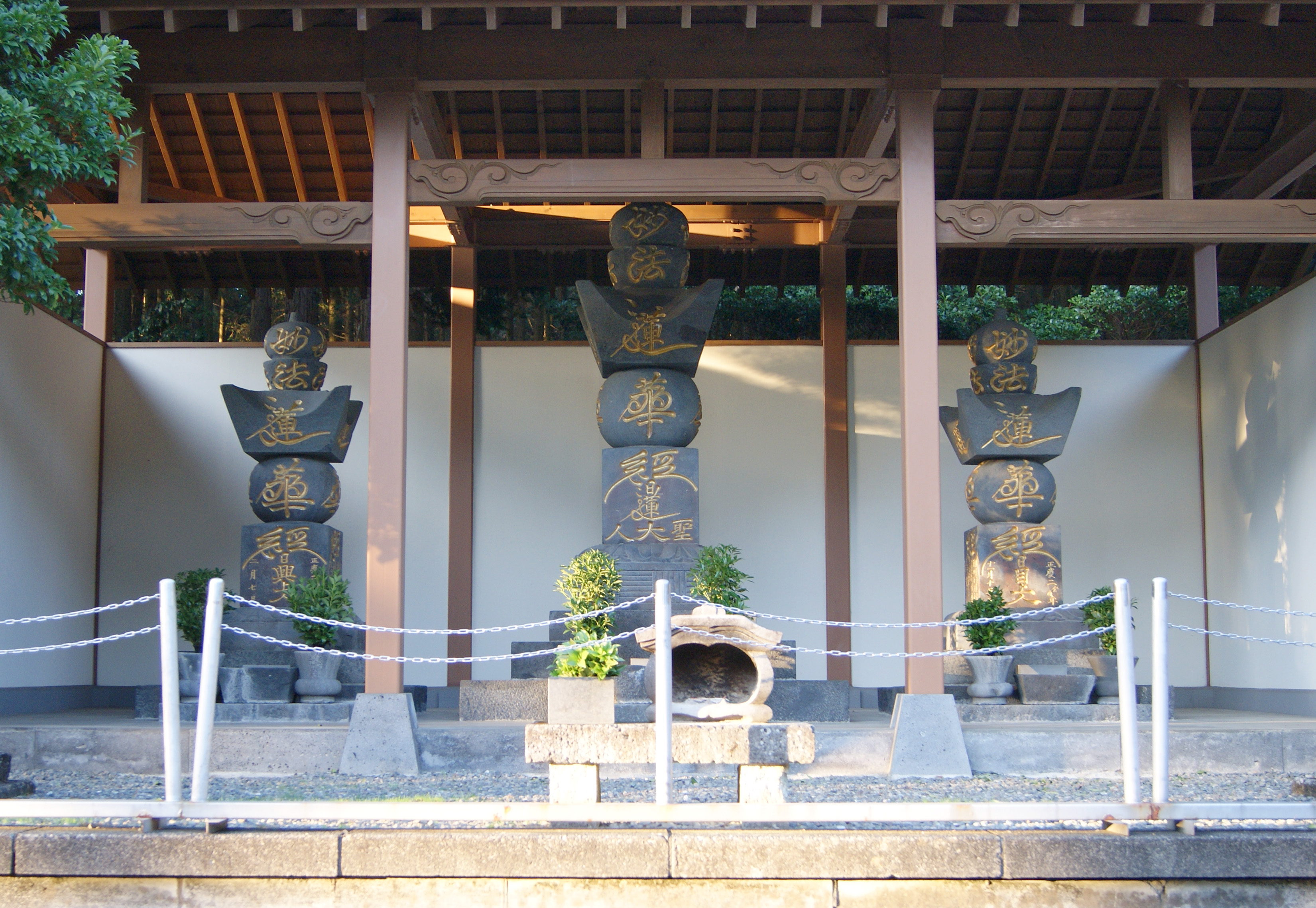 Sanshi-Tō(center) of Taiseki-ji.